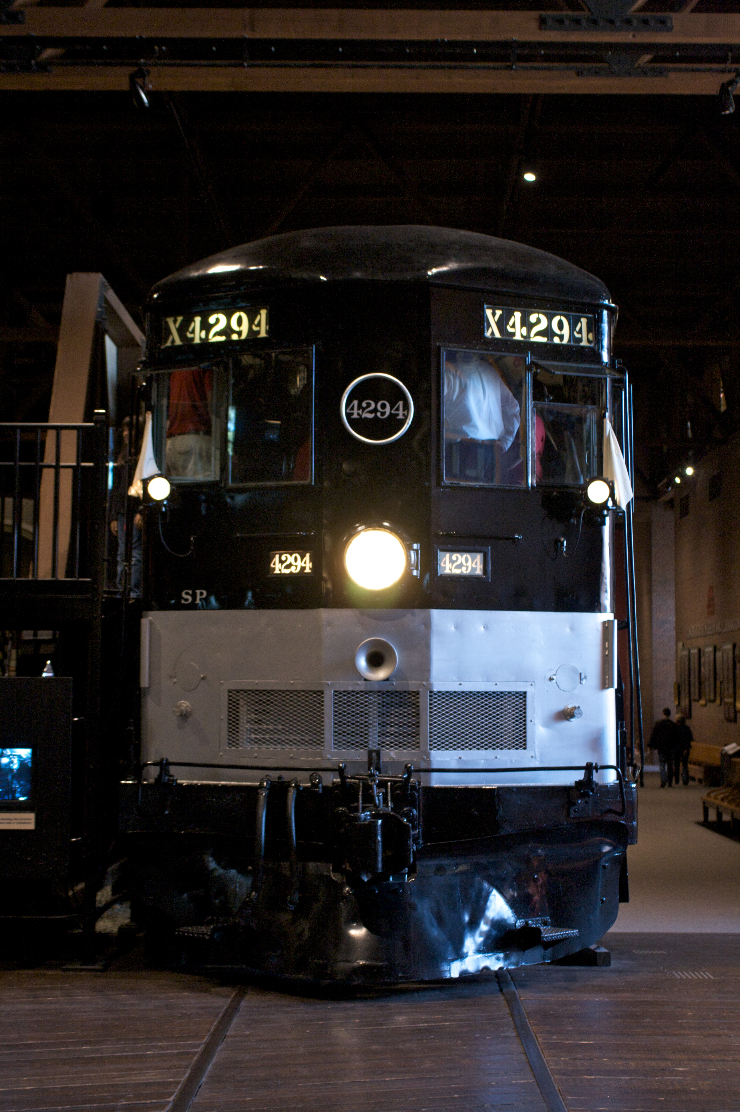 Southern Pacific 4294 Cab forward steam locomotive at California State Railroad Museum